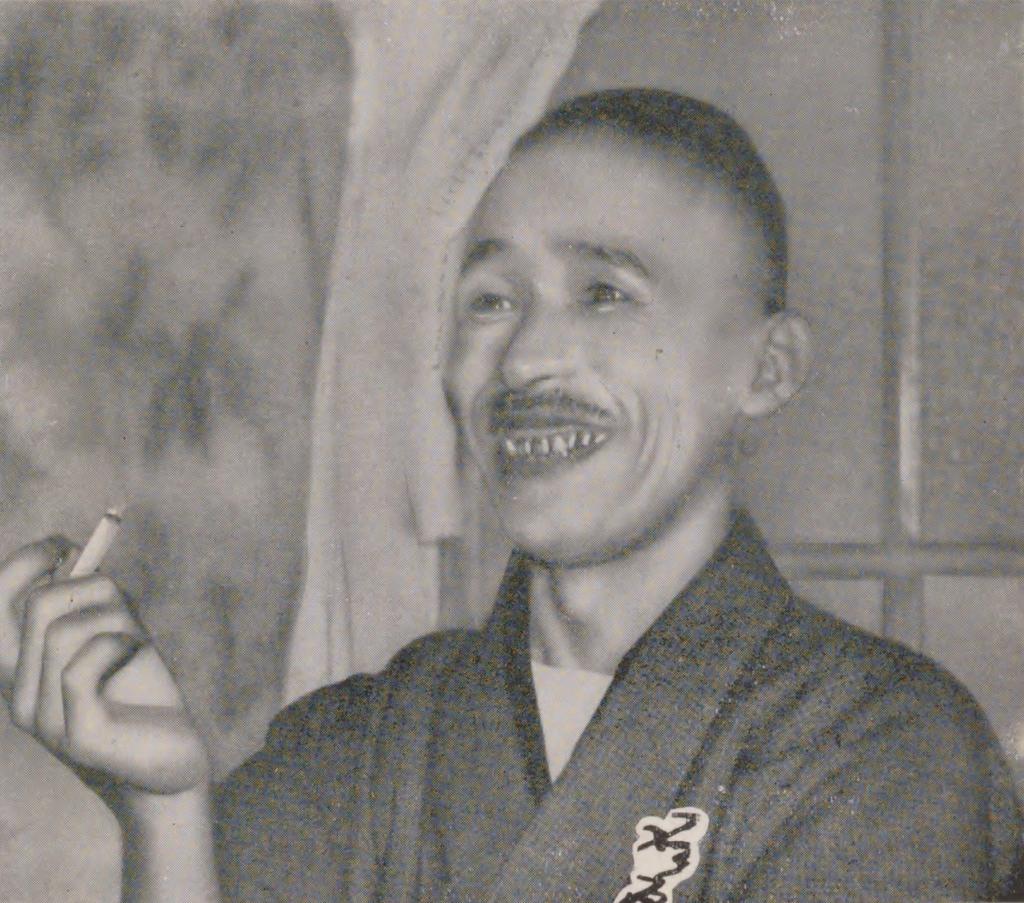 Portrait of Ishihara Koichiro (石原広一郎, 1890 – 1970)